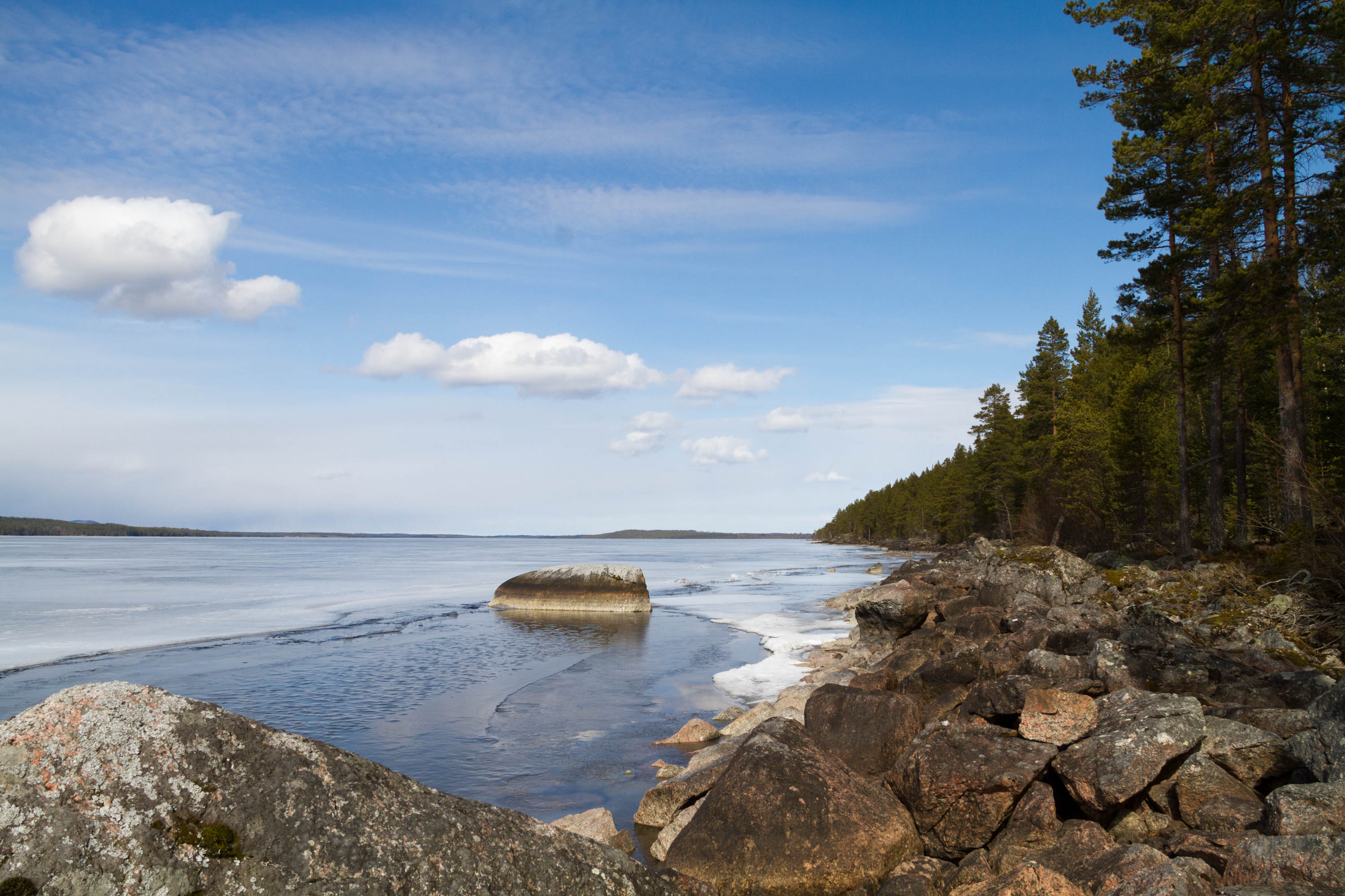 Lake Näkten in Jämtland, Sweden.